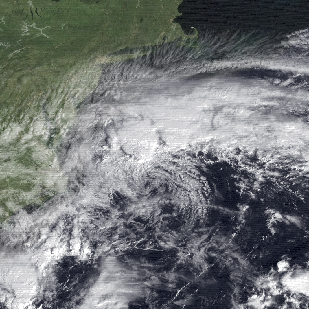 Tropical Storm Dean at peak intensity off the coast of Delaware on September 29, 1983